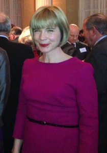 Lucy Worsley, Historic Royal Palaces